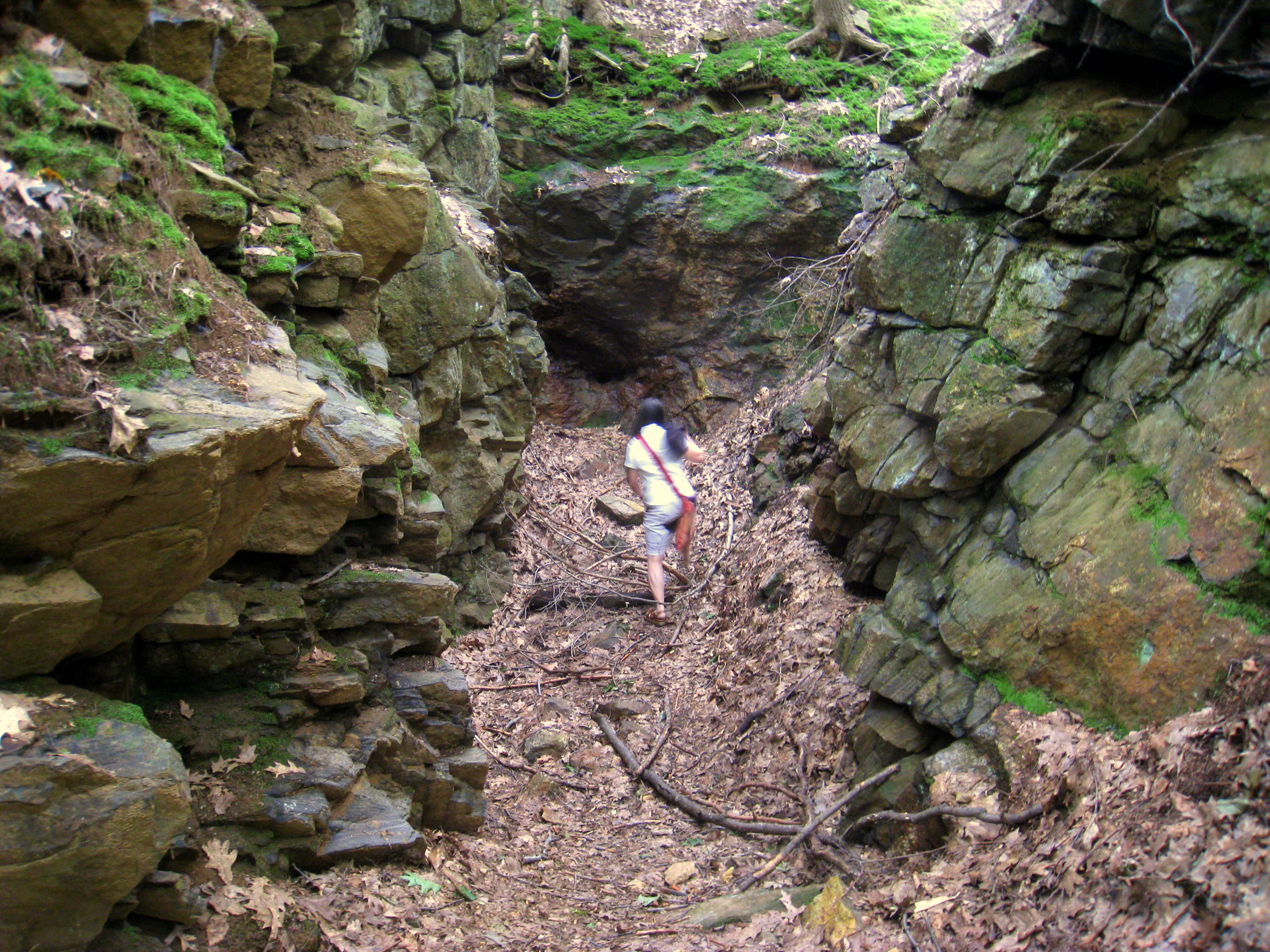 Tantiusques, a former graphite mine now owned and managed by The Trustees of Reservations, in Sturbridge, Massachusetts, USA.